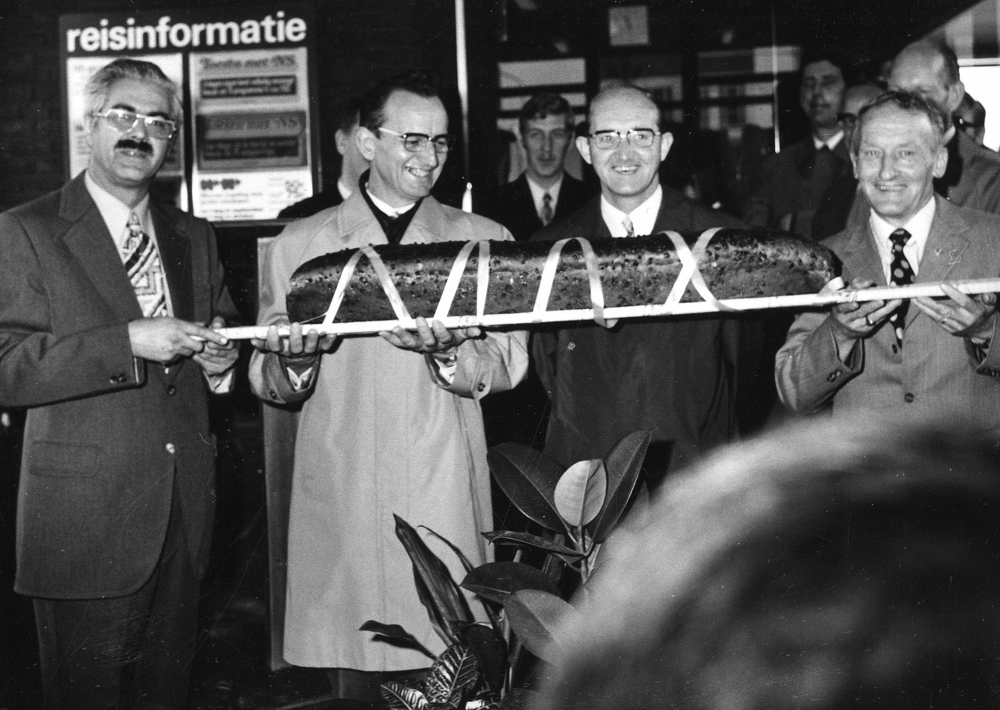 Image of several of the representatives of the noaberschap of Wehl, carrying a krentenwegge of one and a half meters, which was given to the employees of the N.S.-station Wehl to commemorate the official opening of the new station building.